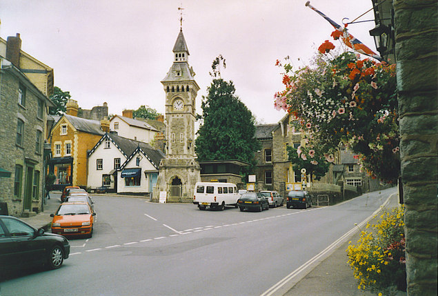 Clock Tower, Hay-on-Wye. An unusually quiet moment in the middle of this Welsh border town which is famous for its number of bookshops.